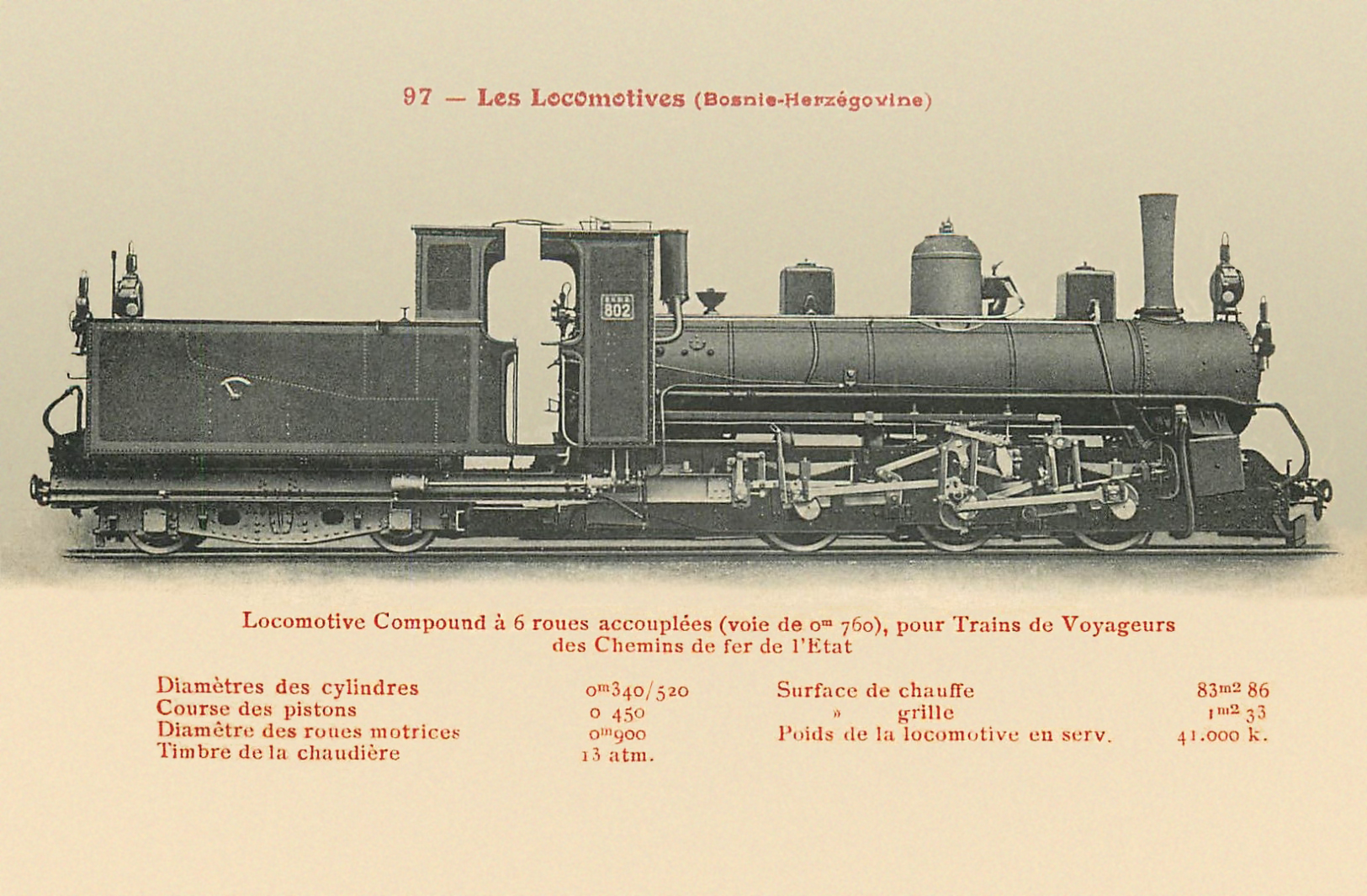 This locomotive with No. 4651 was manufactured by Lokomotivfabrik KRAUSS & CO in 1901. According to Pospichal's locomotive statistics this locomotive KrLi 4651/01 was BHStB 802, and later JDŽ 186-002.